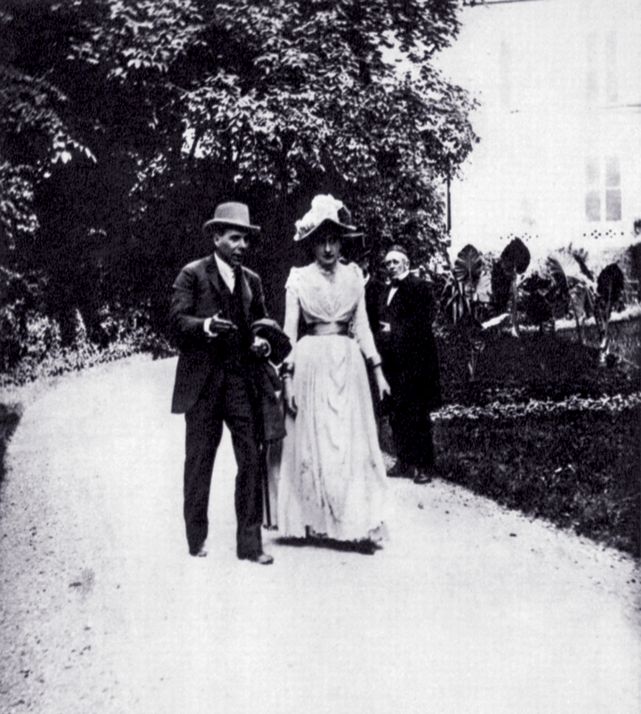 Coquelin Cadet and Marguerite Moreno